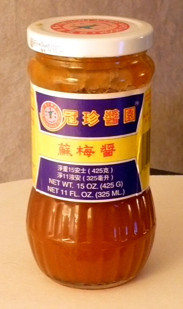 A jar of commercially available plum sauce, produced in Hong Kong and packed by the Koon Chun Hing Kee Soy & Sauce Fty. Ltd. Photo taken in Kent, Ohio with a Panasonic Lumix digital camera (model DMC-LS75). The ingredients include sugar, plum (i.e. ume) pulp, vinegar, salt, ginger, chili, and garlic.